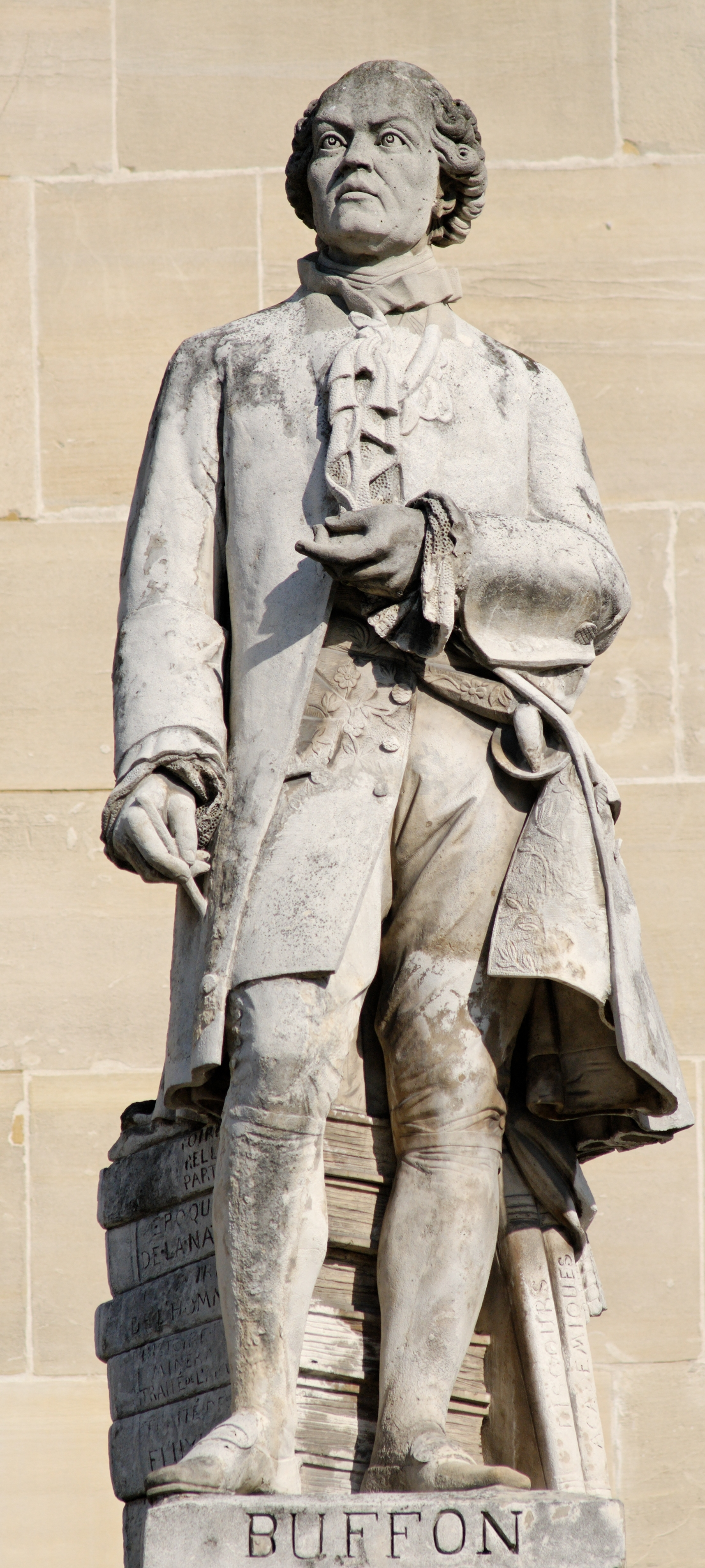 Buffon by Eugène Oudiné. Stone, before 1853. 7th statue from Pavillon Turgot to Pavillon Richelieu, Cour Napoléon in the Louvre.